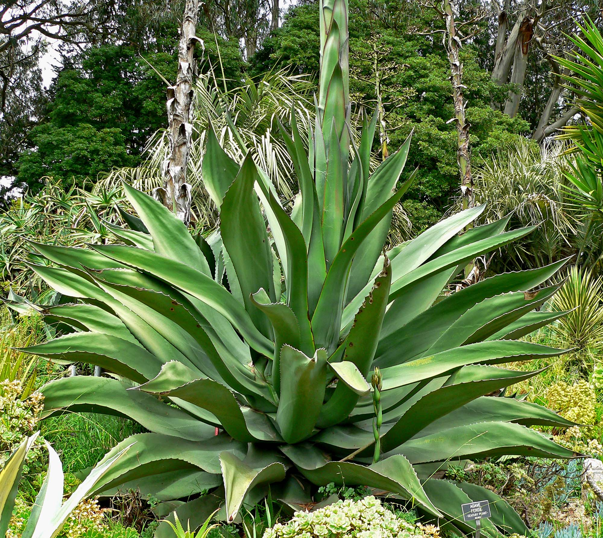 Photo of Agave ferox at the San Francisco Botanical Garden